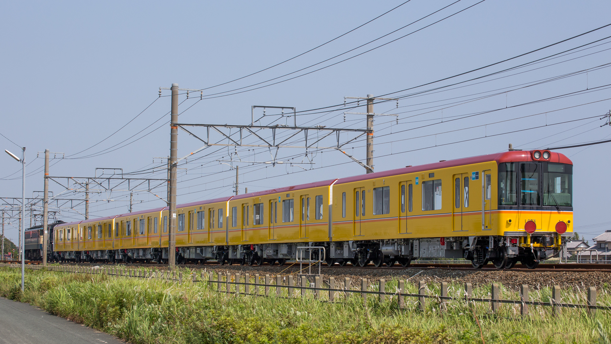 Tokyo Metro 1000 series EMU set 1103 hauled by a class EF65-1000 locomotive on delivery from Nippon Sharyo in Aichi Prefecture